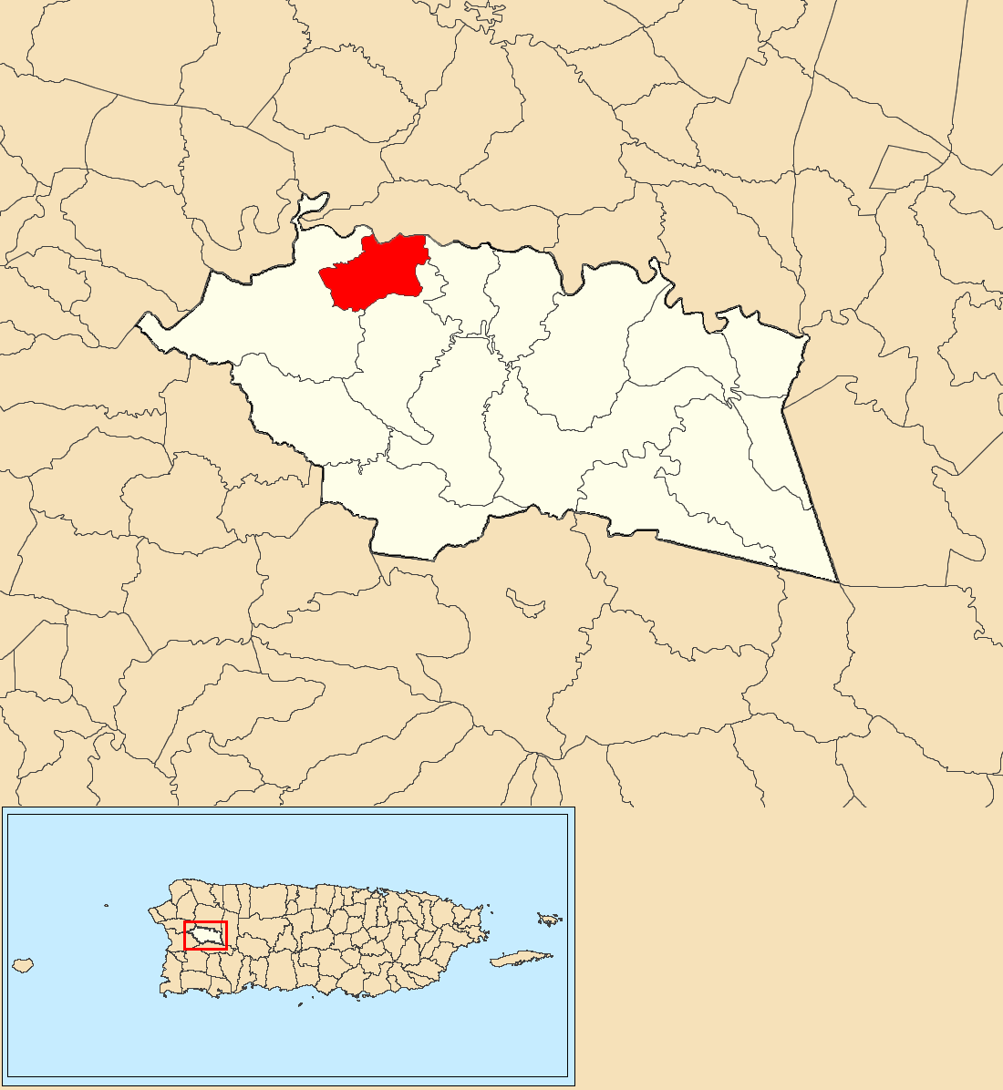 Alto Sano, Las Marías, Puerto Rico locator map